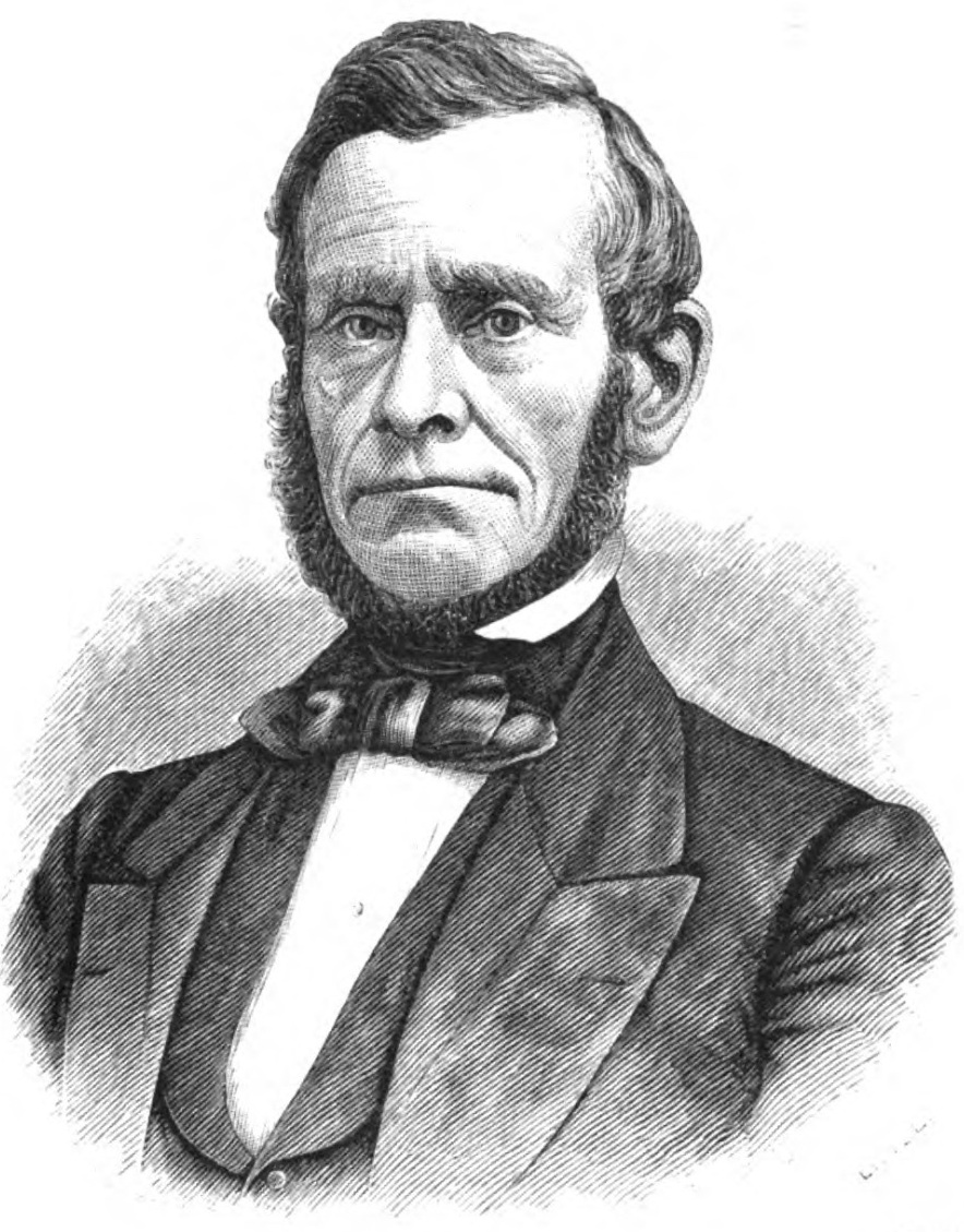 Thomas Maxwell, Congressman from Elmira, New York